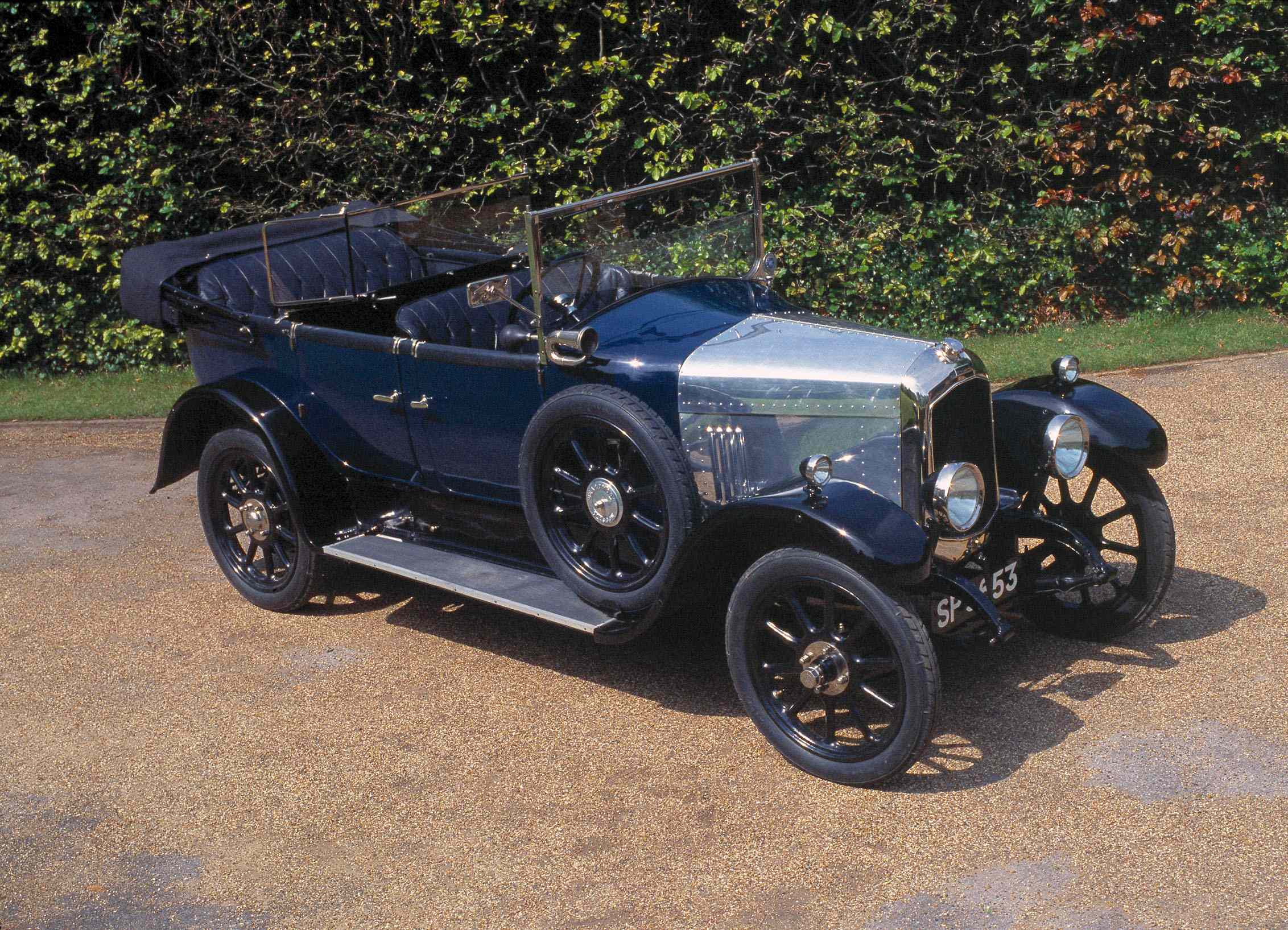 Beardmore 12/30 from 1925 with standard tourer body by Kelly